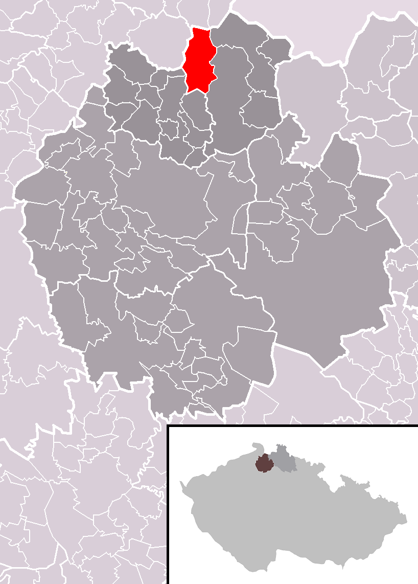 Location of Svor municipality within Česká Lípa District and administrative area of Nový Bor as a Municipality with Extended Competence.